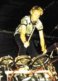 A man is playing the drums during a live performance. He has short blond hair, dark pants and a t shirt and appears to be jumping in the air while playing the drums.